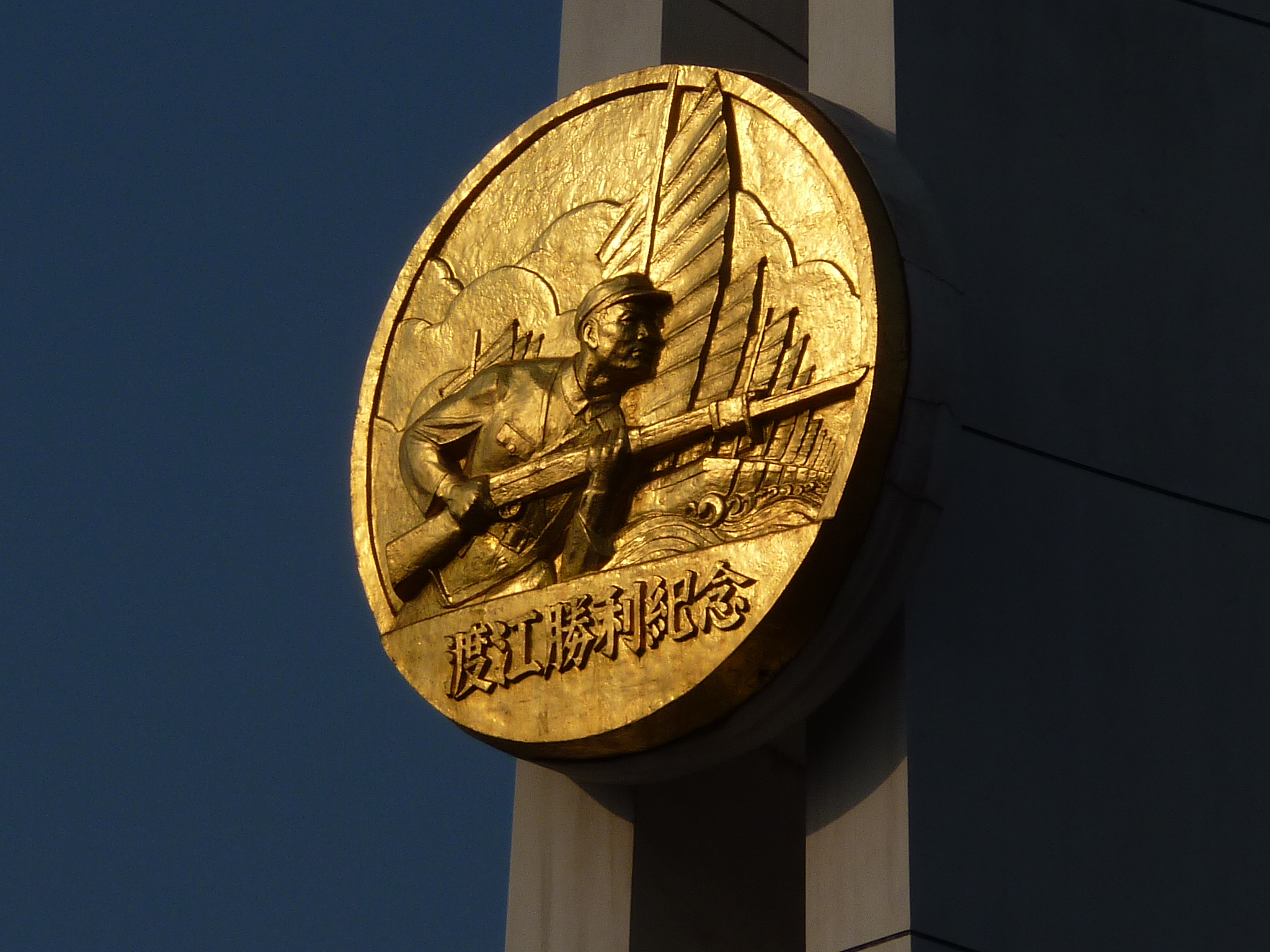 The monument in memory of the victorious crossing of the Yangtze by the Red Army in 1949. Located in the roundabout at the crossing of Zhongshan Bei Lu (Zhongshan Rd. North) and Rehe Lu (Rehe Rd). Not to be confused with a much bigger memorial further south, on the Yangtze waterfront near the mouth of the Qinhuai River